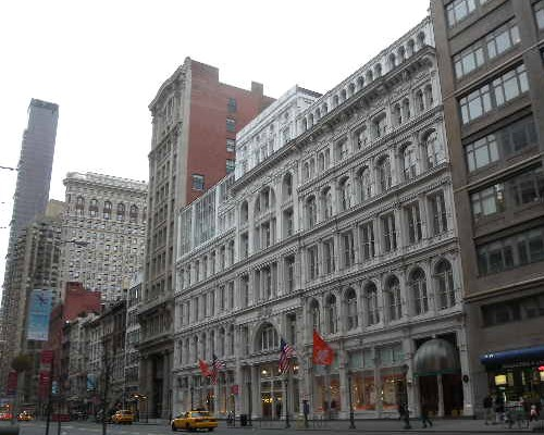 Looking south across 23rd Street at former Stern Brothers Department Store, now Home Depot, on a cloudy morning on my way to Wikipedia Day 11.